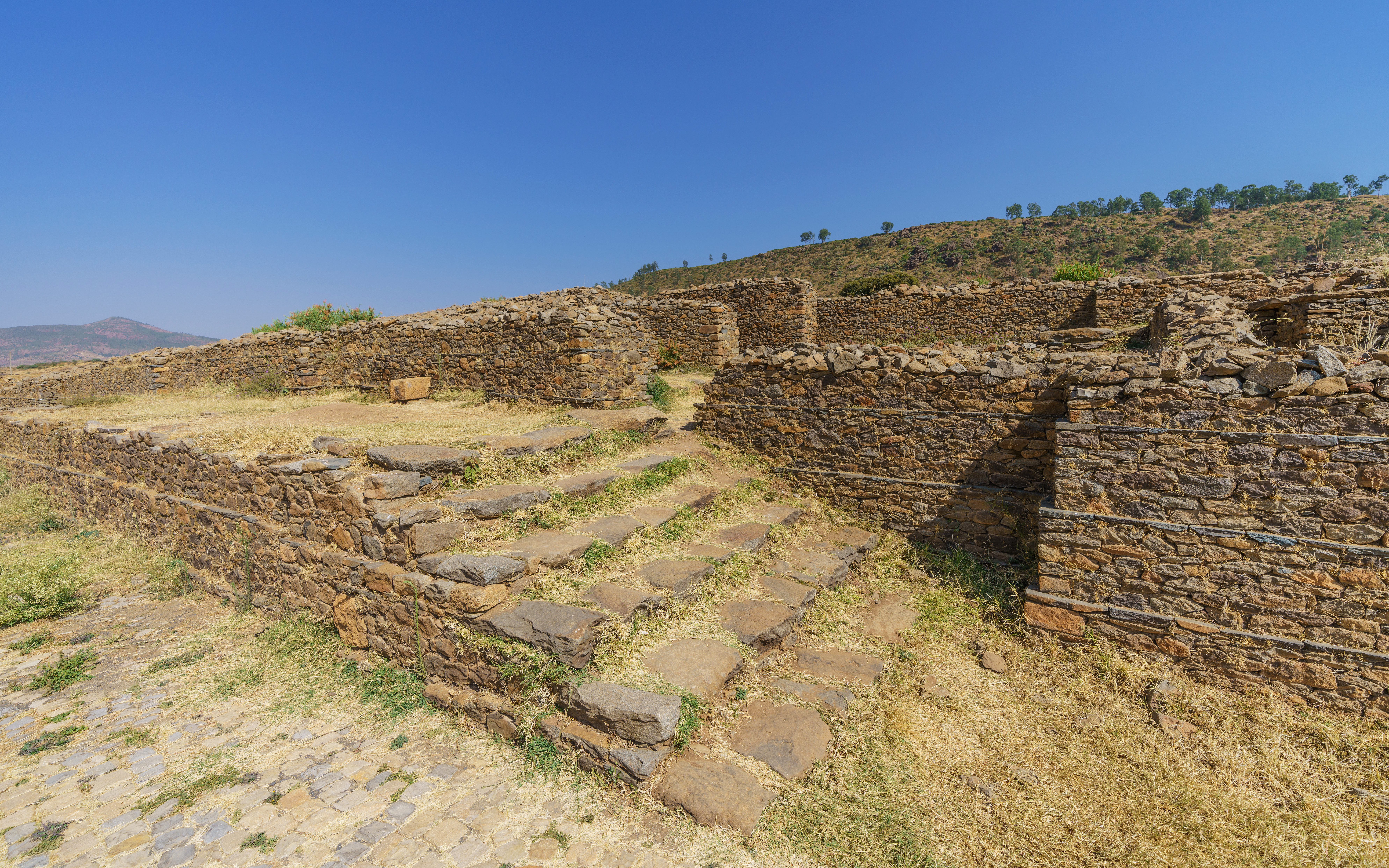 Ruins of Dungur (also known as Queen of Sheba's Palace) in Aksum, Tigray Region, Ethiopia